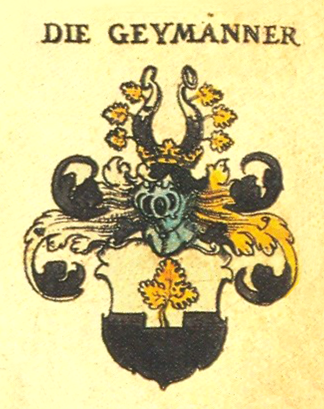 Coat of Arms of Geymann